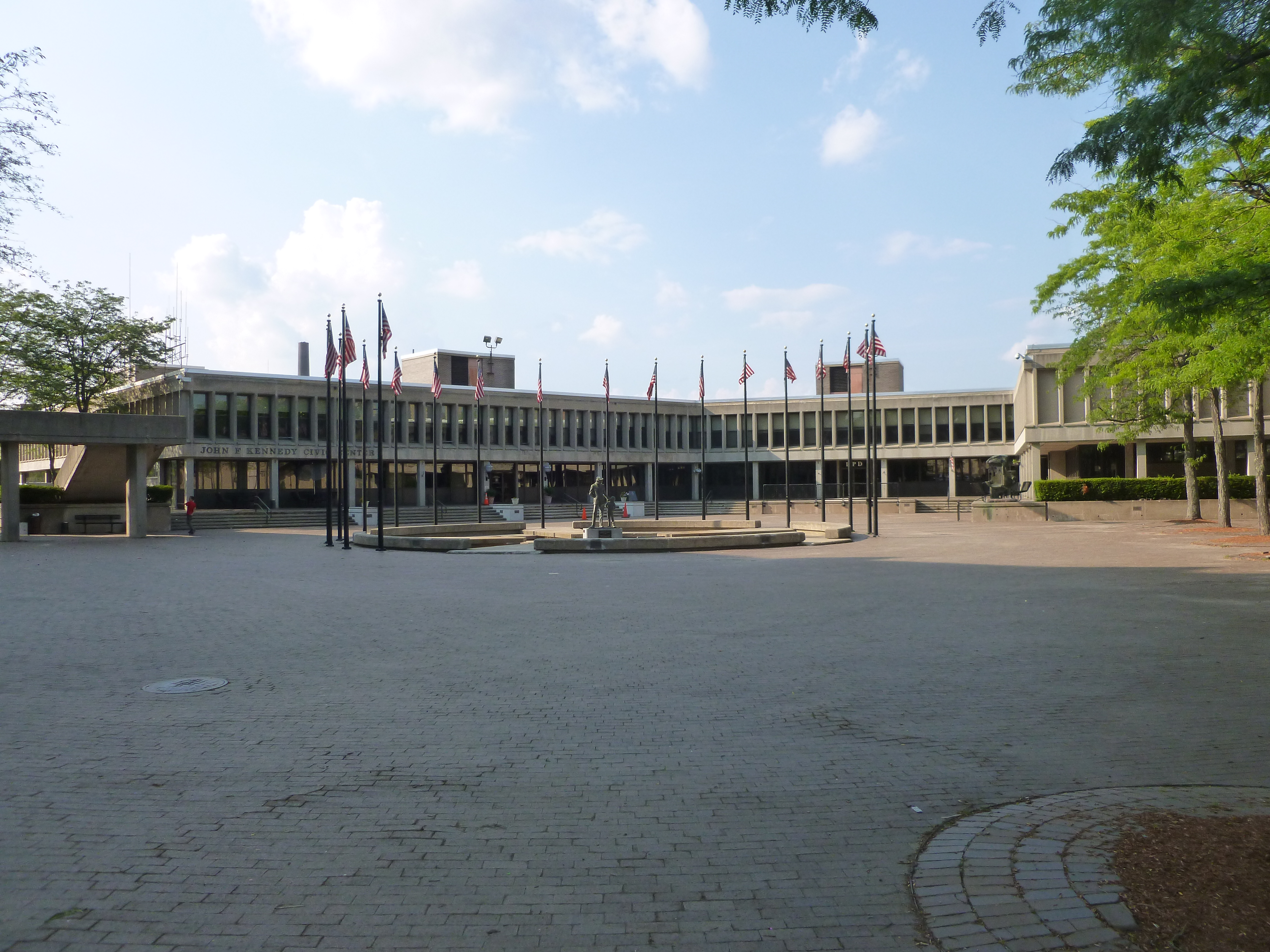 The John F. Kennedy Center, located at 50 Arcand Drive, Lowell, Massachusetts. The Christos G. Rouses memorial is visible in a small depression. Behind that is a Lowell Police Department station.